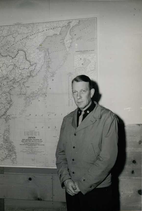 Colonel Hardy Cross Dillard stands in front of a large map of Japan at the Theatre Planning & Research Division, Civil Affairs Staging Area (CASA) Presidio of Monterey.